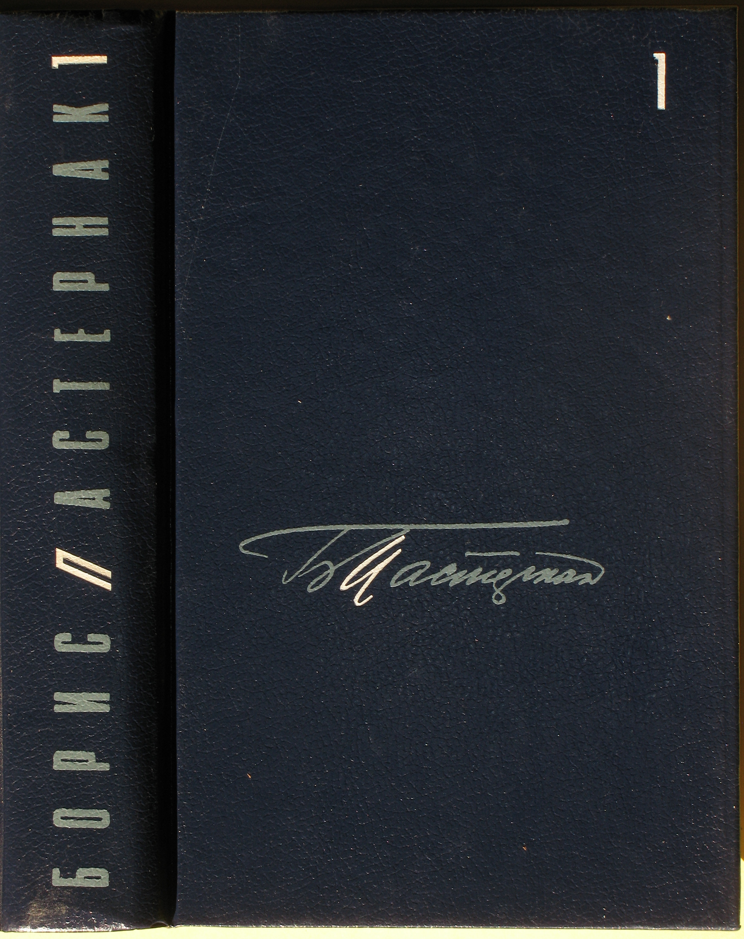 Boris Pasternak signature on his book.